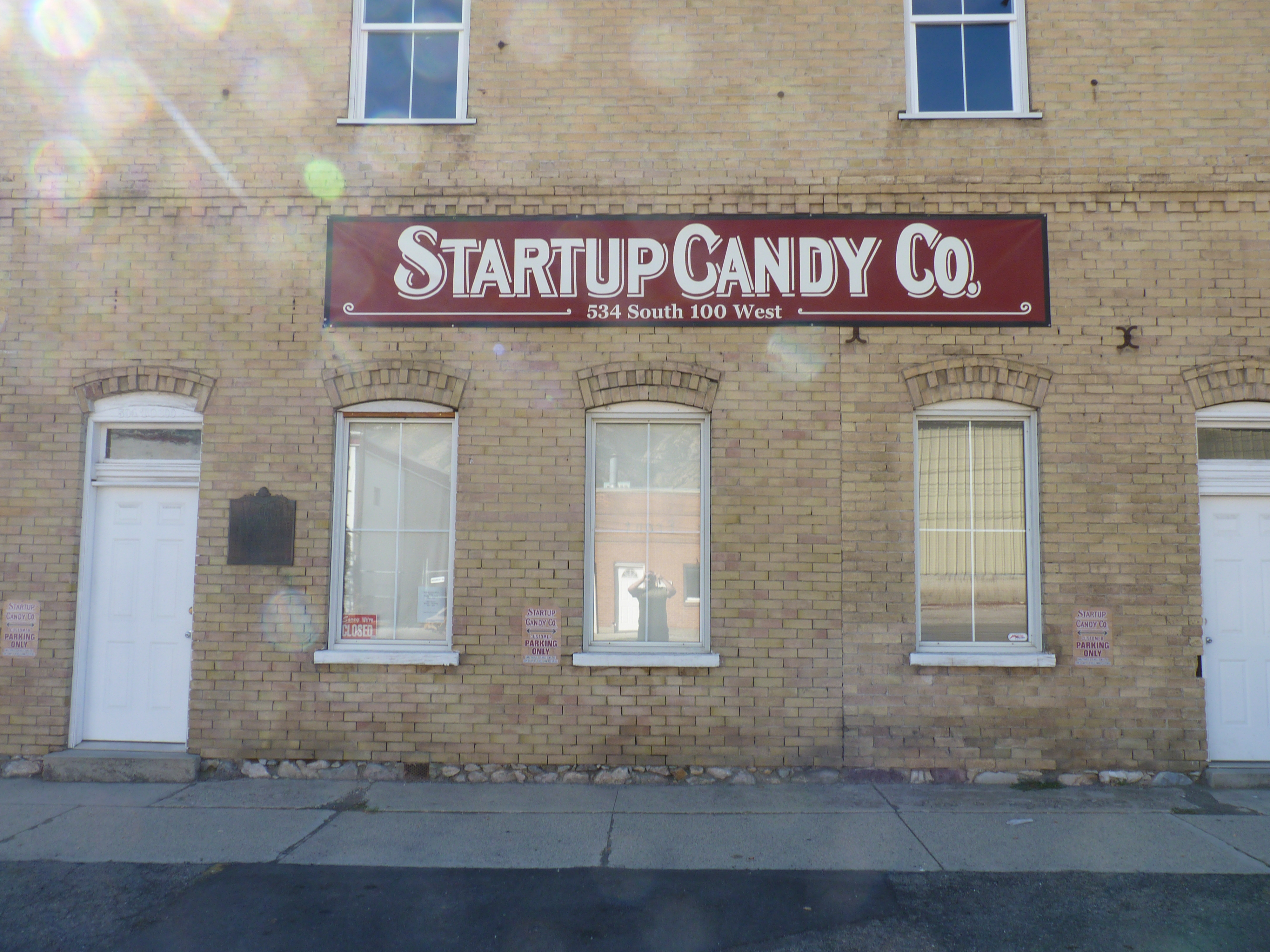 The Startup Candy Factory is located in Provo, Utah and is listed on both the NRHP and the Provo City Historic Landmarks Registry.